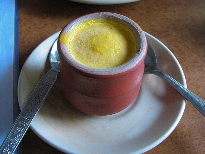 Kulfi eaten from a matka (clay pot)